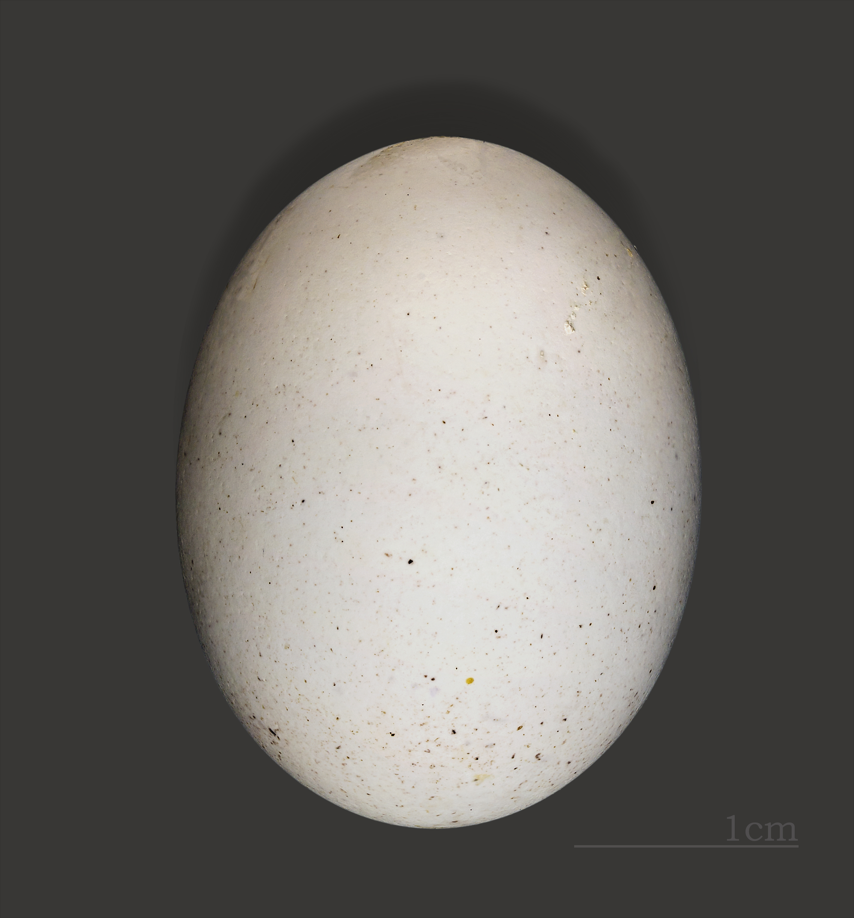 Egg of Band-rumped storm petrel. Collection of René de Naurois /Jacques Perrin de Brichambaut.